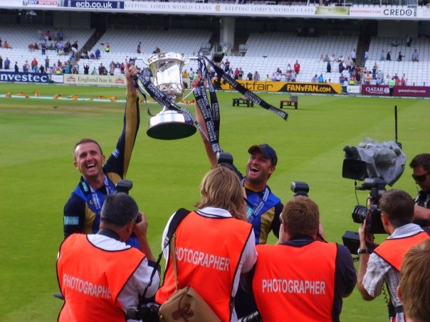 Dominic Cork (left) lifts aloft the 2009 Friends Provident Trophy.